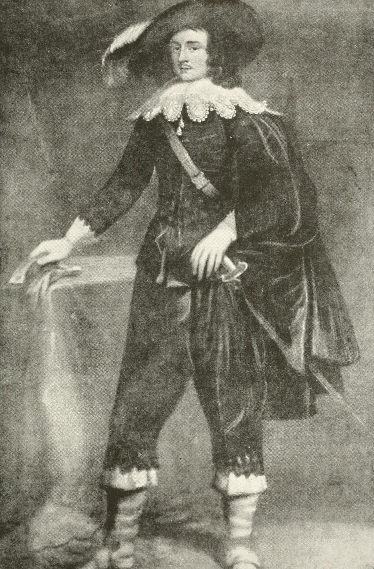 Sir Andrew Corbet (1580-1637) of Moreton Corbet, Shropshire. MP who opposed absolutist policies of Charles I. Monochrome photo of early 17th century oil painting.